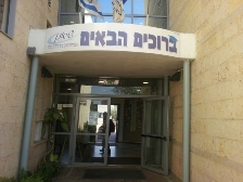 the "sheanan" college in haifa, israel